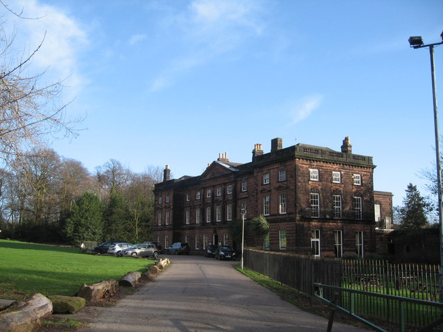 Allerton Hall was first depicted on a map in 1568 although a hall was recorded in Allerton as early as 1323. It was owned by William Roscoe between 1799 and 1816. It was donated to the City of Liverpool as public open space in 1923 and for many years the building was in a state of disrepair until it was bought by a pub chain and turned into "The Pub in the Park".